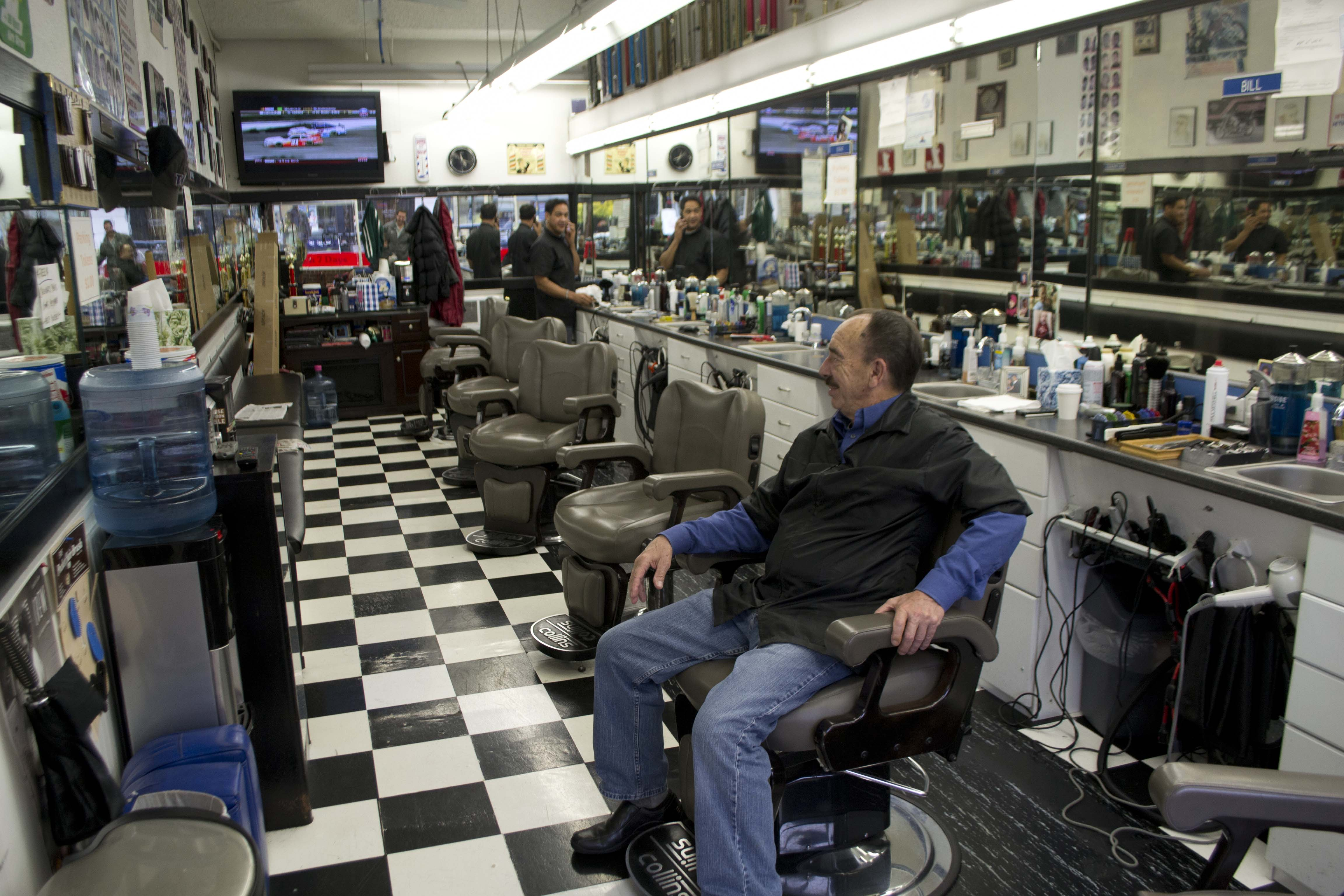 A Seattle barber shop